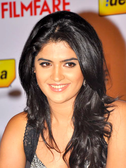 Deeksha 59th filmfare awards(south) press meet